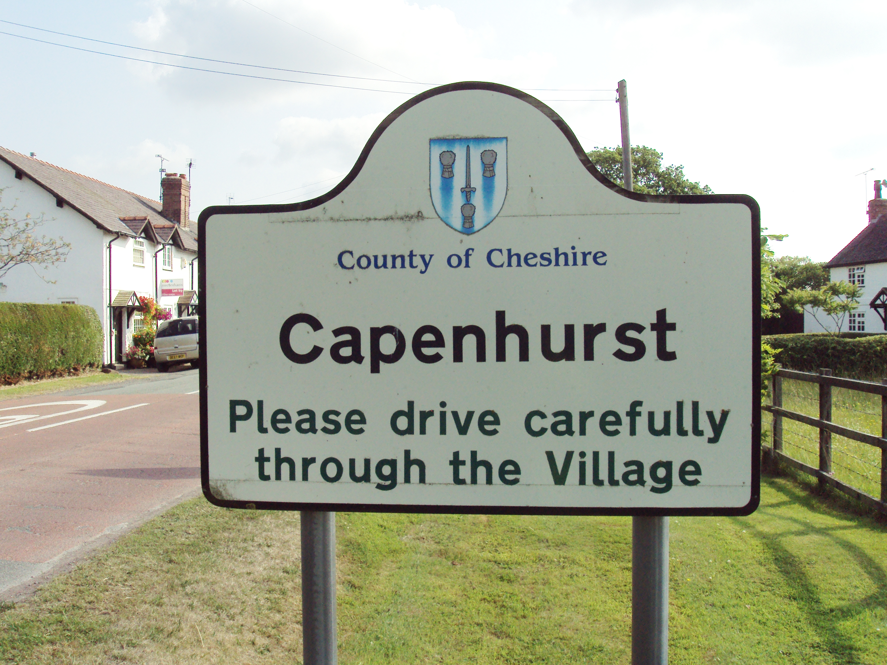 Sign on entering the village of Capenhurst on Capenhurst Lane, Cheshire, England.